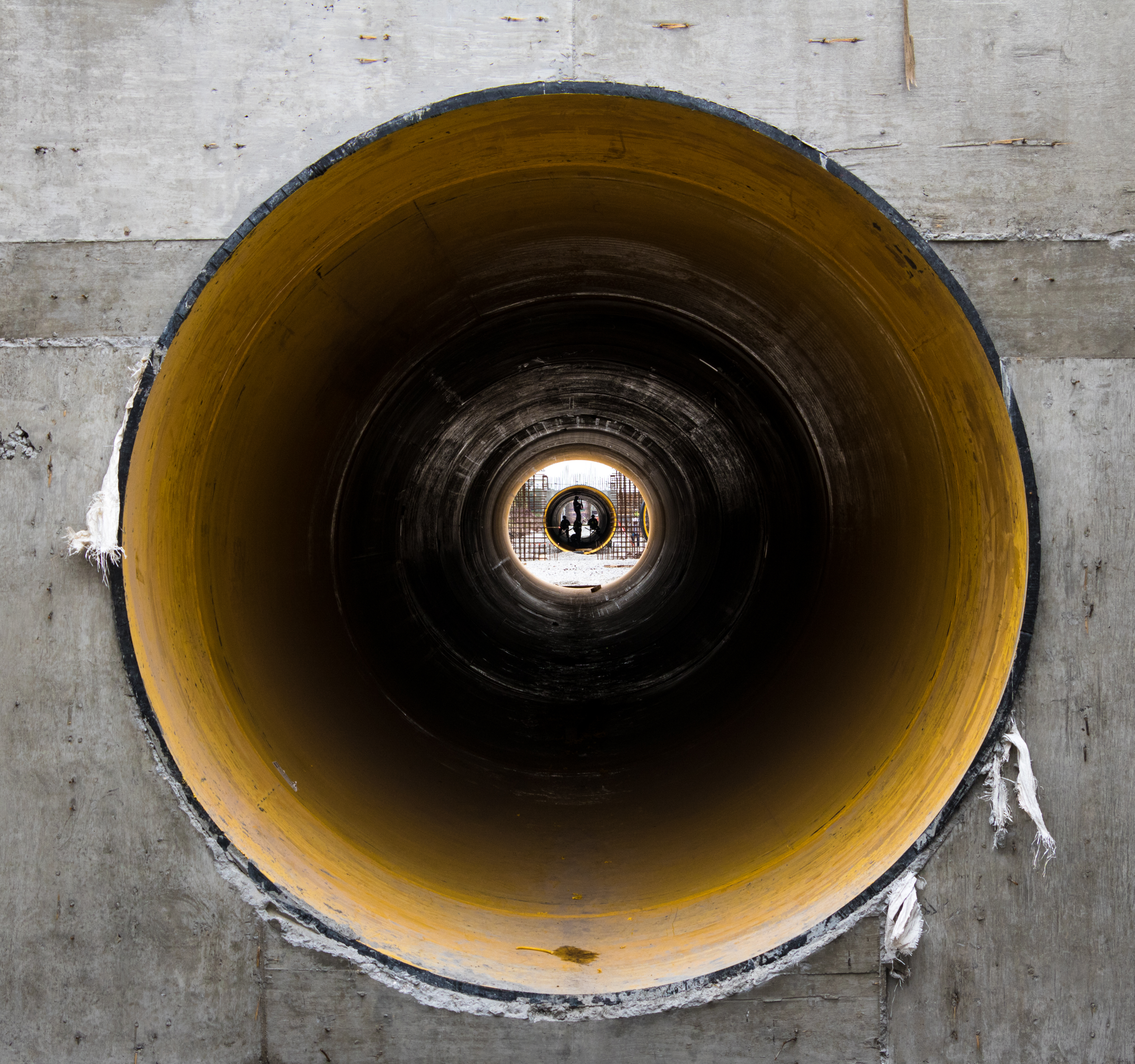 120" HDPE pipe installation in Mexico City. The pipe is manufactured by Krah Mexico using virgin high density polyethylene resin. Pipe manufactured by Krah Mexico. Pipe is made according to ASTM F894-13 standard.